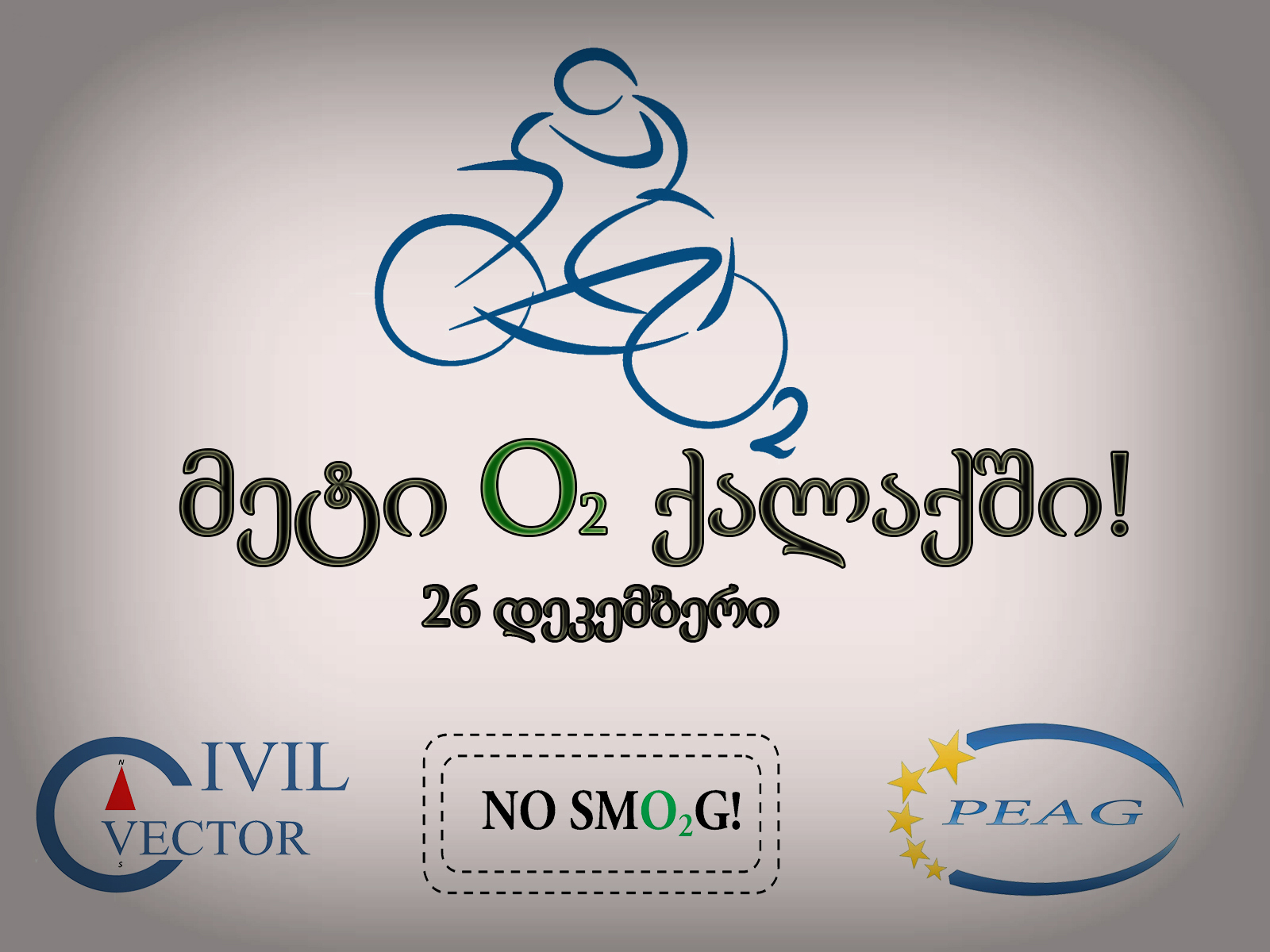 ფლეშმობ - აქცია NO SMOG!-ის ბანერი